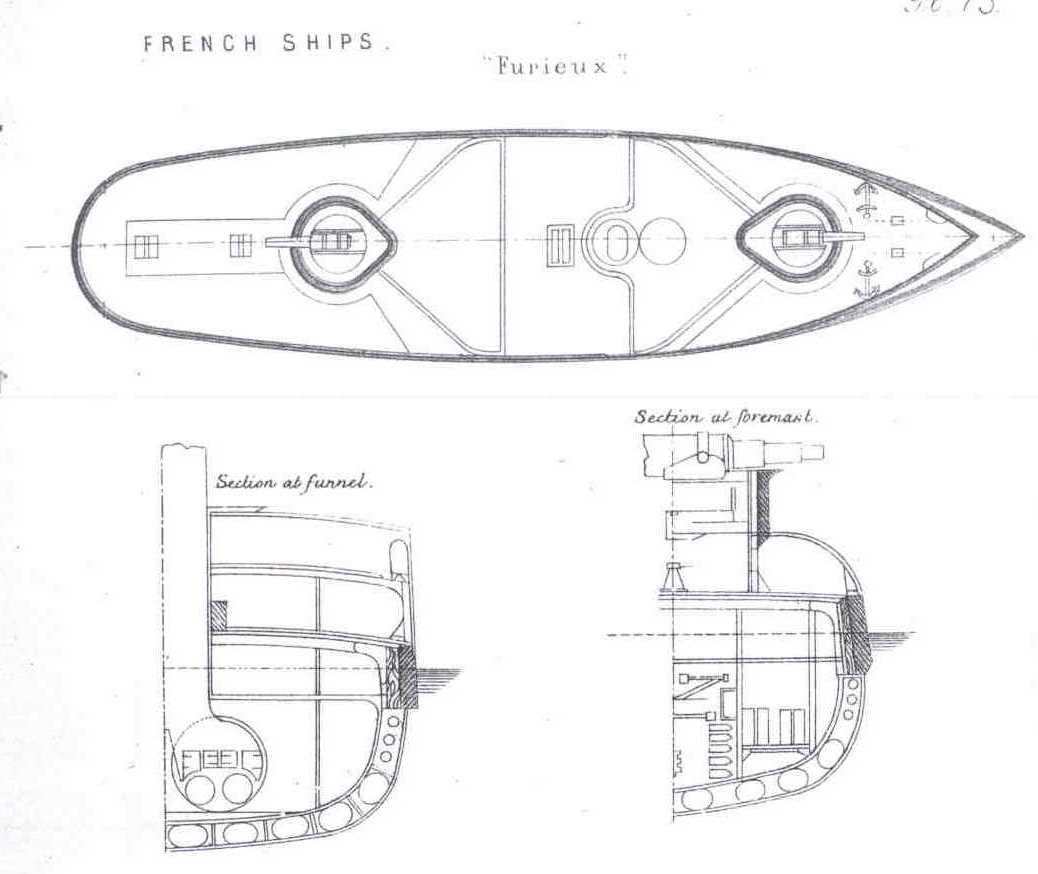 Plan of the French coastal defence ship Furieux, launched 1883.